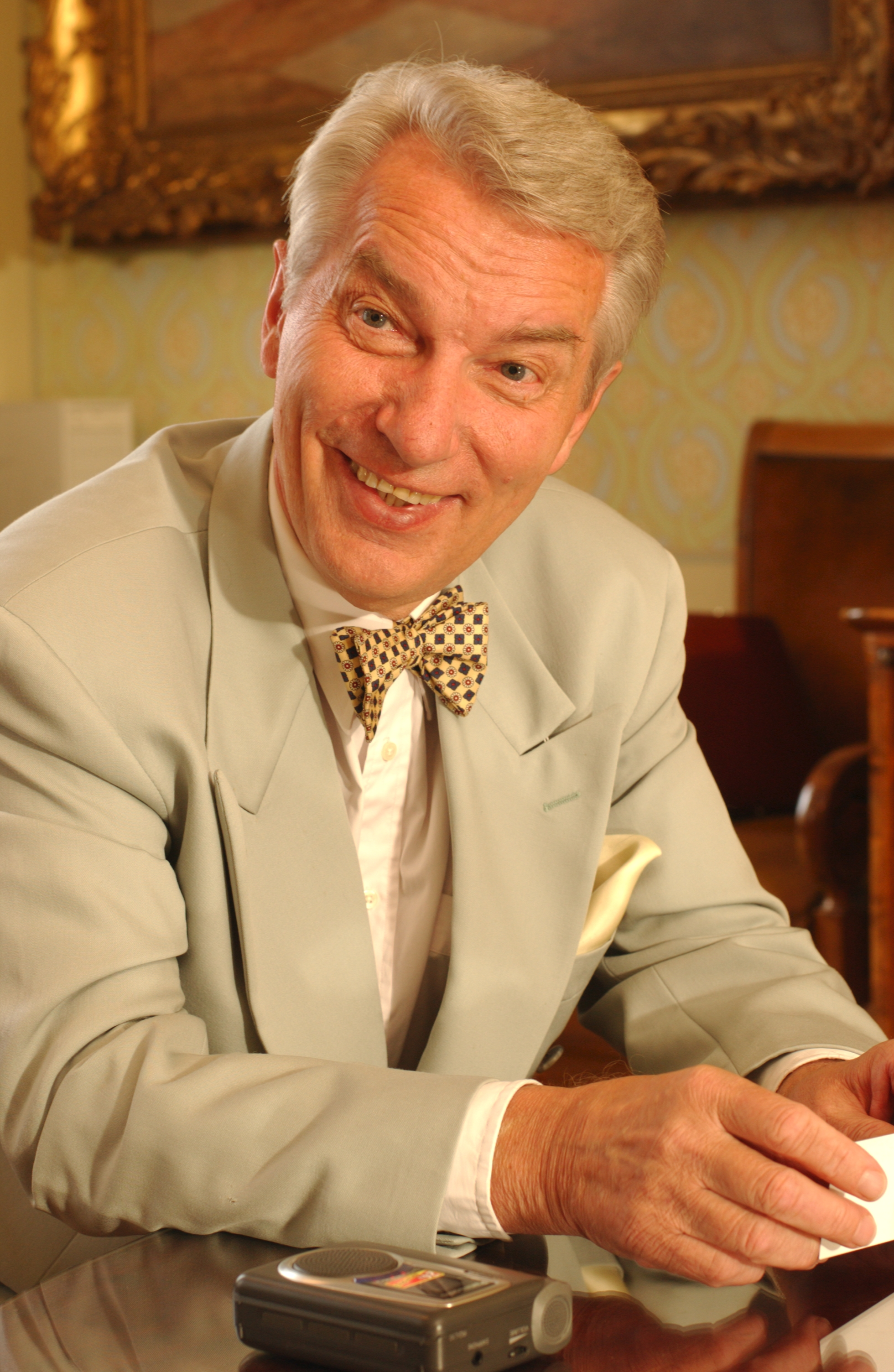 Szilveszter E. Vizi (E. S. Vizi), Hungarian physician, pharmacologist, former president of the Hungarian Academy of Sciences (jpg version of the original .tif file)